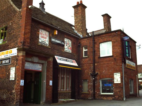 The Old Vicarage, Zetland Street, Wakefield